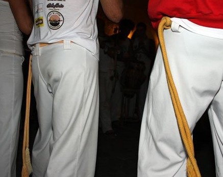 Cordel of capoeira